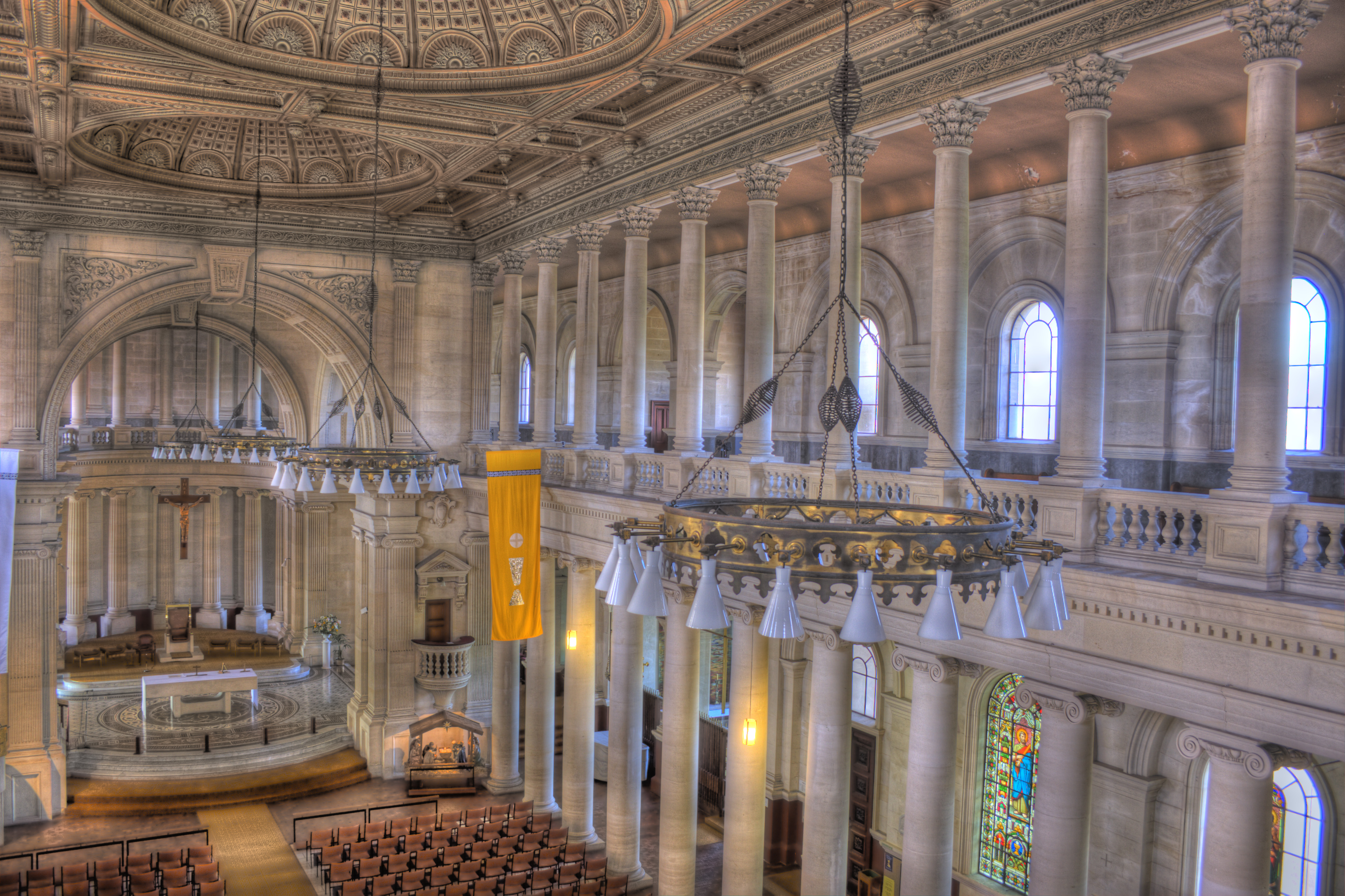 Cathedral of the Blessed Sacrament, Christchurch